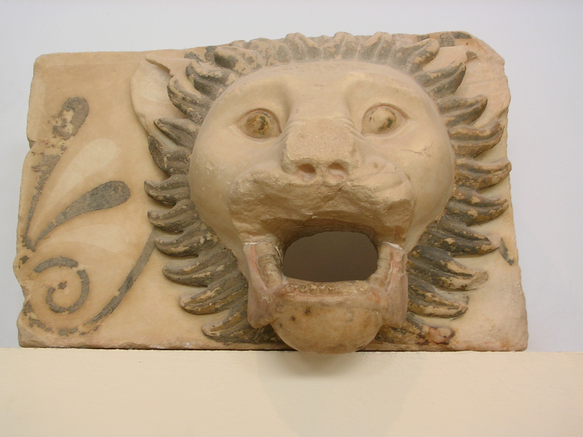 drainpipe from Parthenon